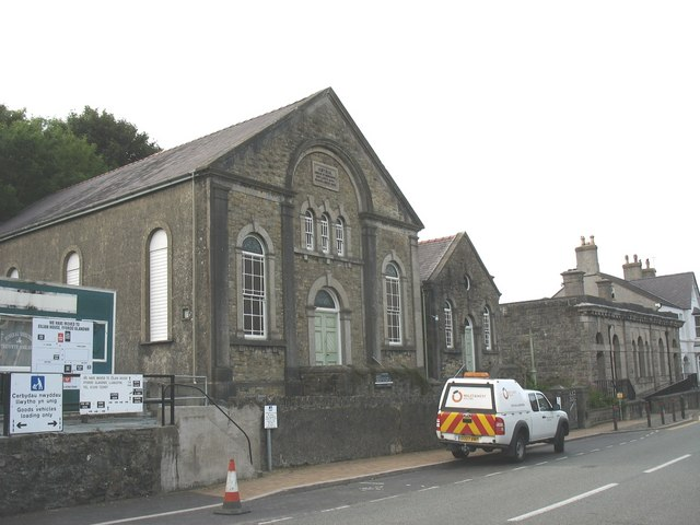 Capel Smyrna Chapel, Glanhwfa Road This Grade II listed building is a Congregationalist chapel built in 1903 to replace an earlier chapel. It stands next door to the County Court.